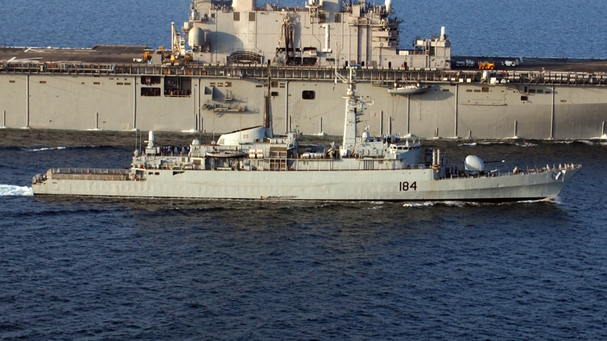 051108-N-0716S-002Persian Gulf (Nov. 8, 2005) – The Pakistani Navy frigate PNS Badr (D 184) steams alongside the amphibious assault ship USS Tarawa (LHA 1) in the Northern Persian Gulf. Tarawa is the flagship for Expeditionary Strike Group One (ESG-1), commanded by Rear Adm. Michael LeFever, who is also coordinating U.S. Forces for the Pakistani led relief effort for the earthquake that struck the northern part of the country on October 8th. The ships of ESG-1 have made several trips to Pakistan to unload relief supplies. U.S. Navy photo by Photographer’s Mate 3rd Class Tony Spiker (RELEASED)